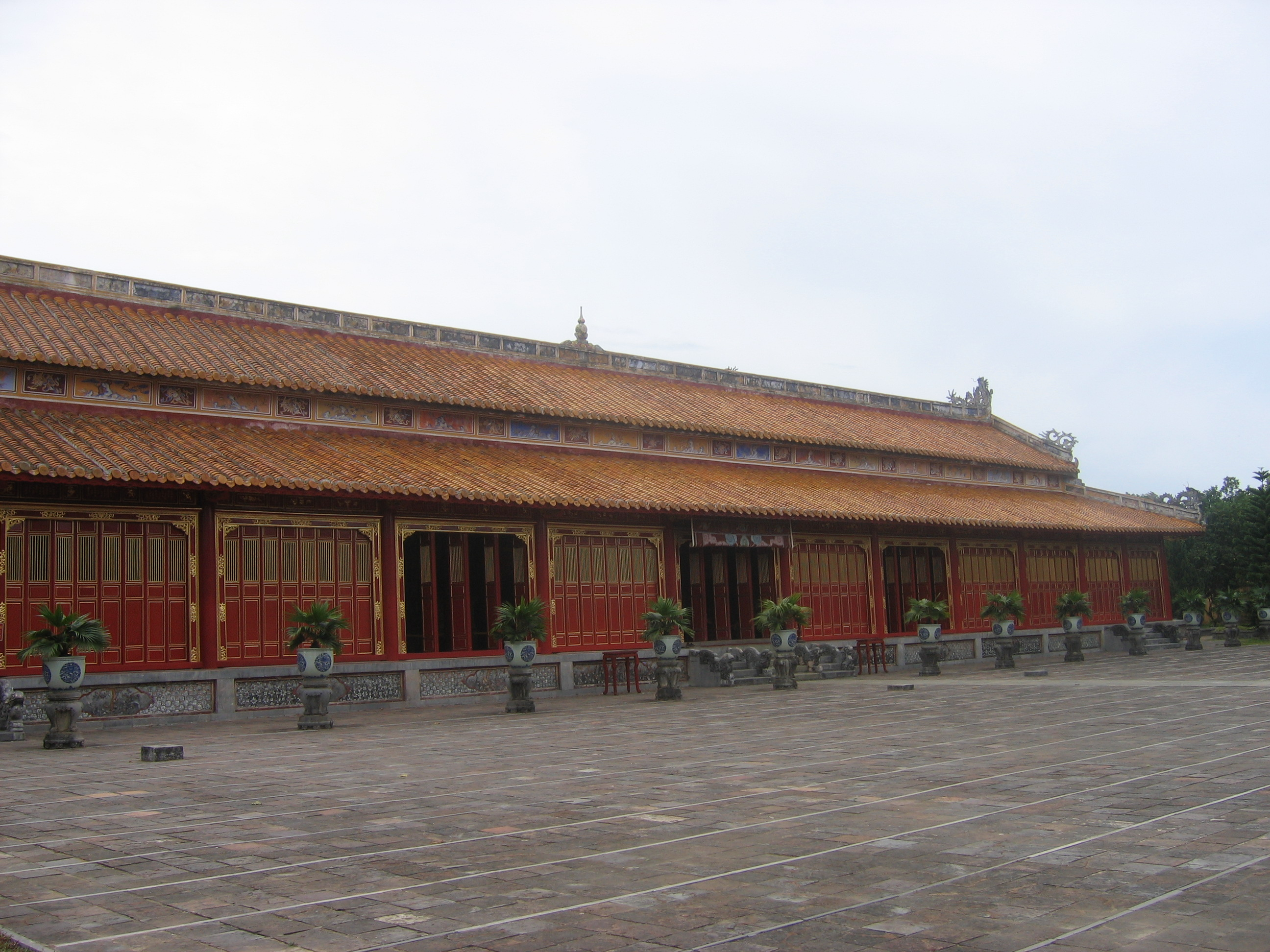 The Mieu Temple